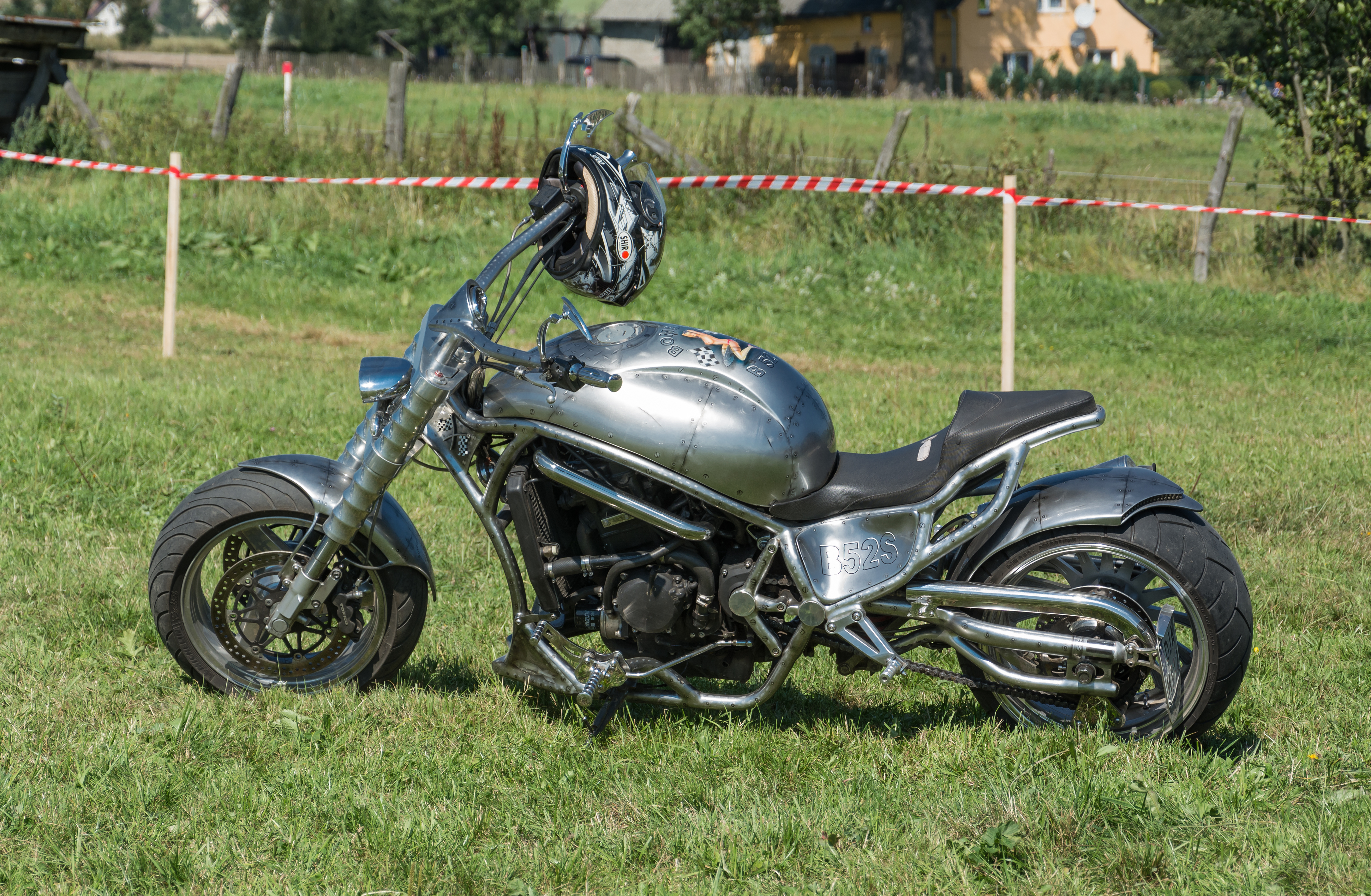 Chopper motorcycle